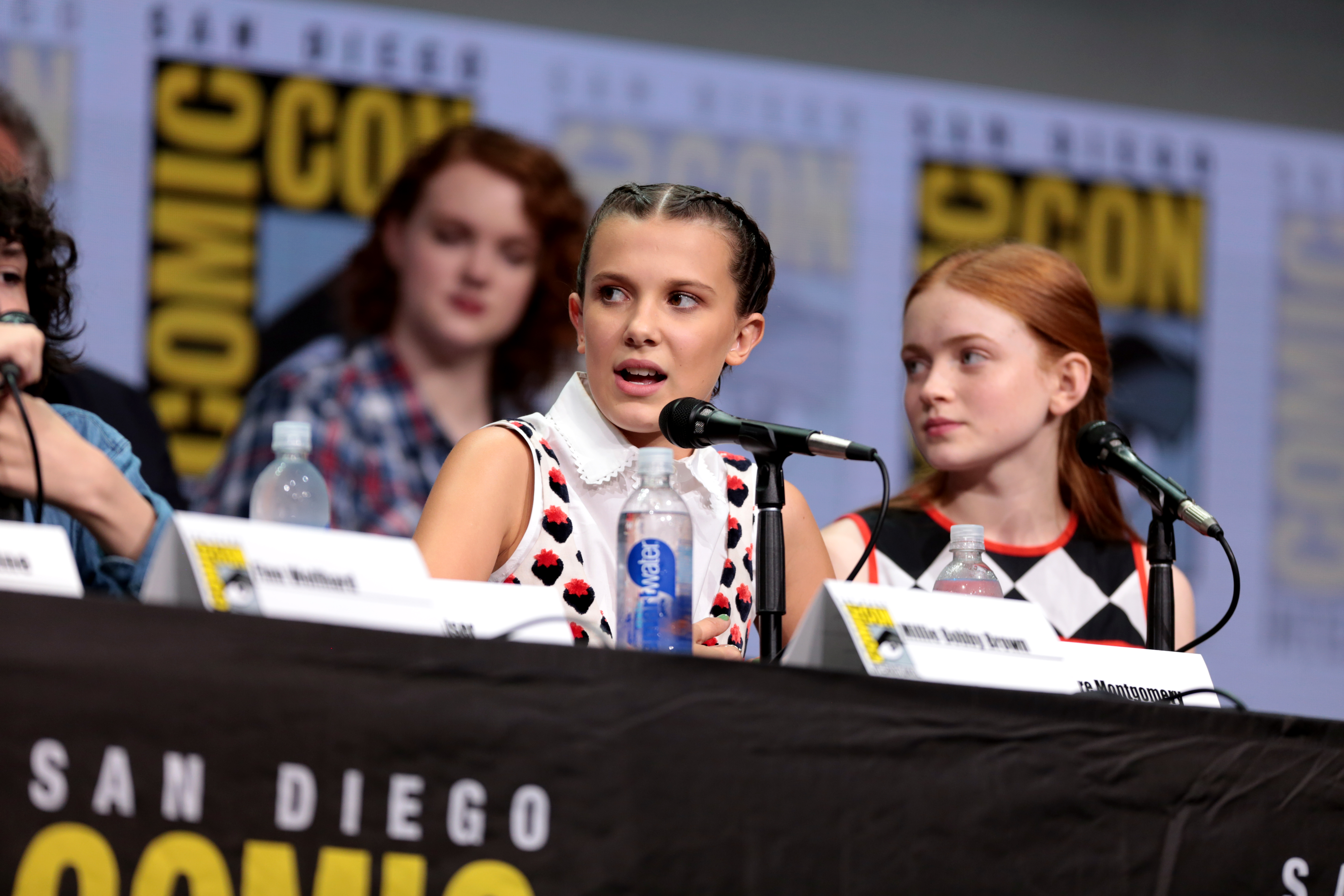 Shannon Purser, Millie Bobby Brown and Sadie Sink speaking at the 2017 San Diego Comic Con International, for "Stranger Things", at the San Diego Convention Center in San Diego, California.